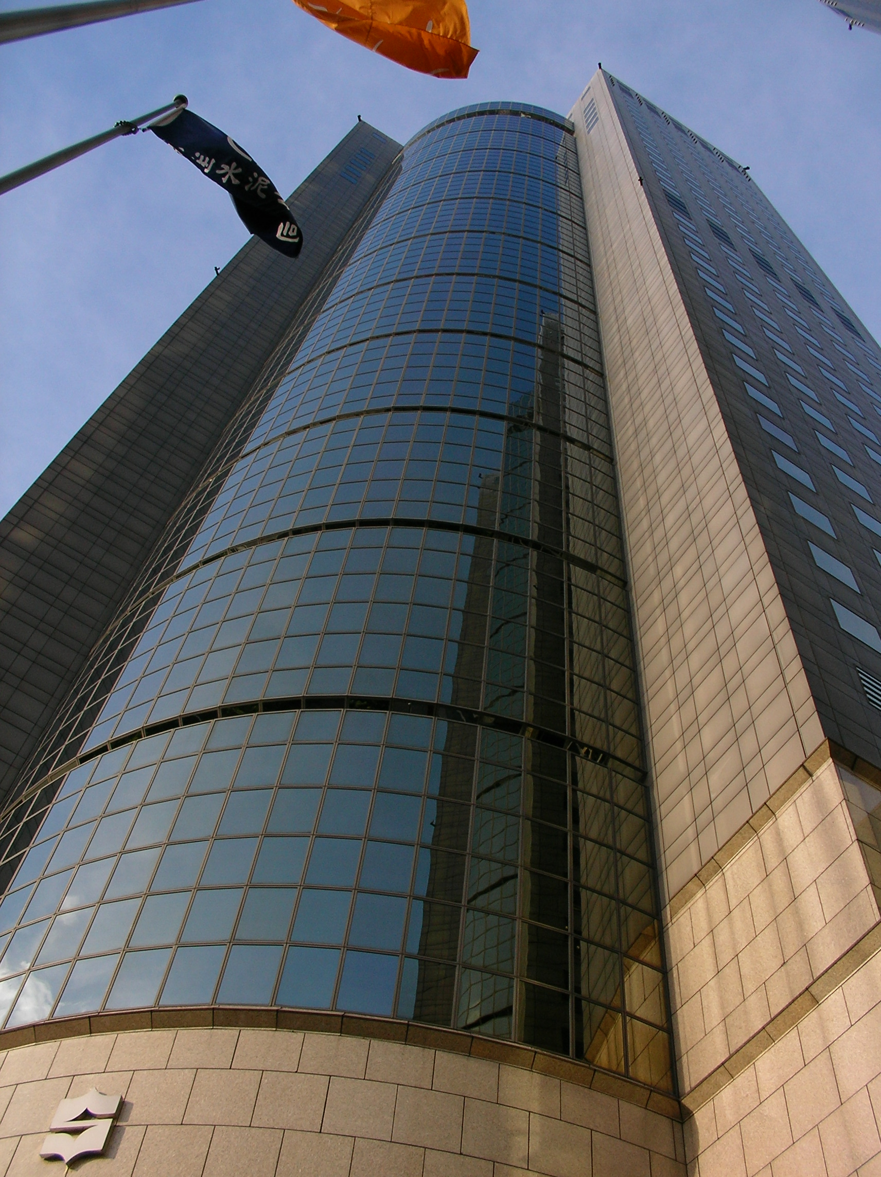 Far Eastern Plaza North Building.